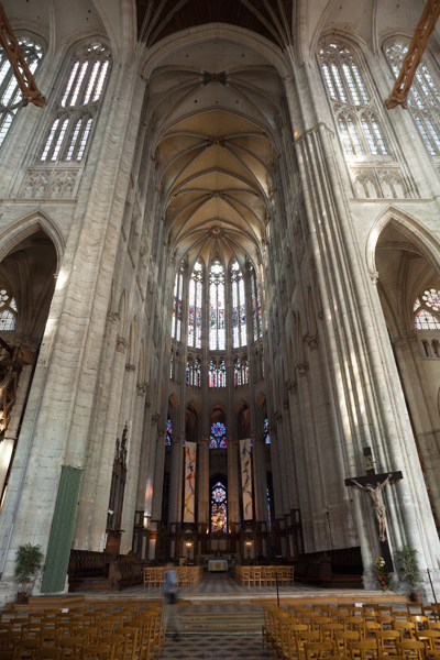 Cathédrale Saint-Pierre; Beauvais, Oise, Picardie, France; ; ref: PM_092547_F_Beauvais; ; Photographer: Paul M.R. Maeyaert; © Paul M.R. Maeyaert; ; Cultural heritage; Europeana; Europe/France/Beauvais